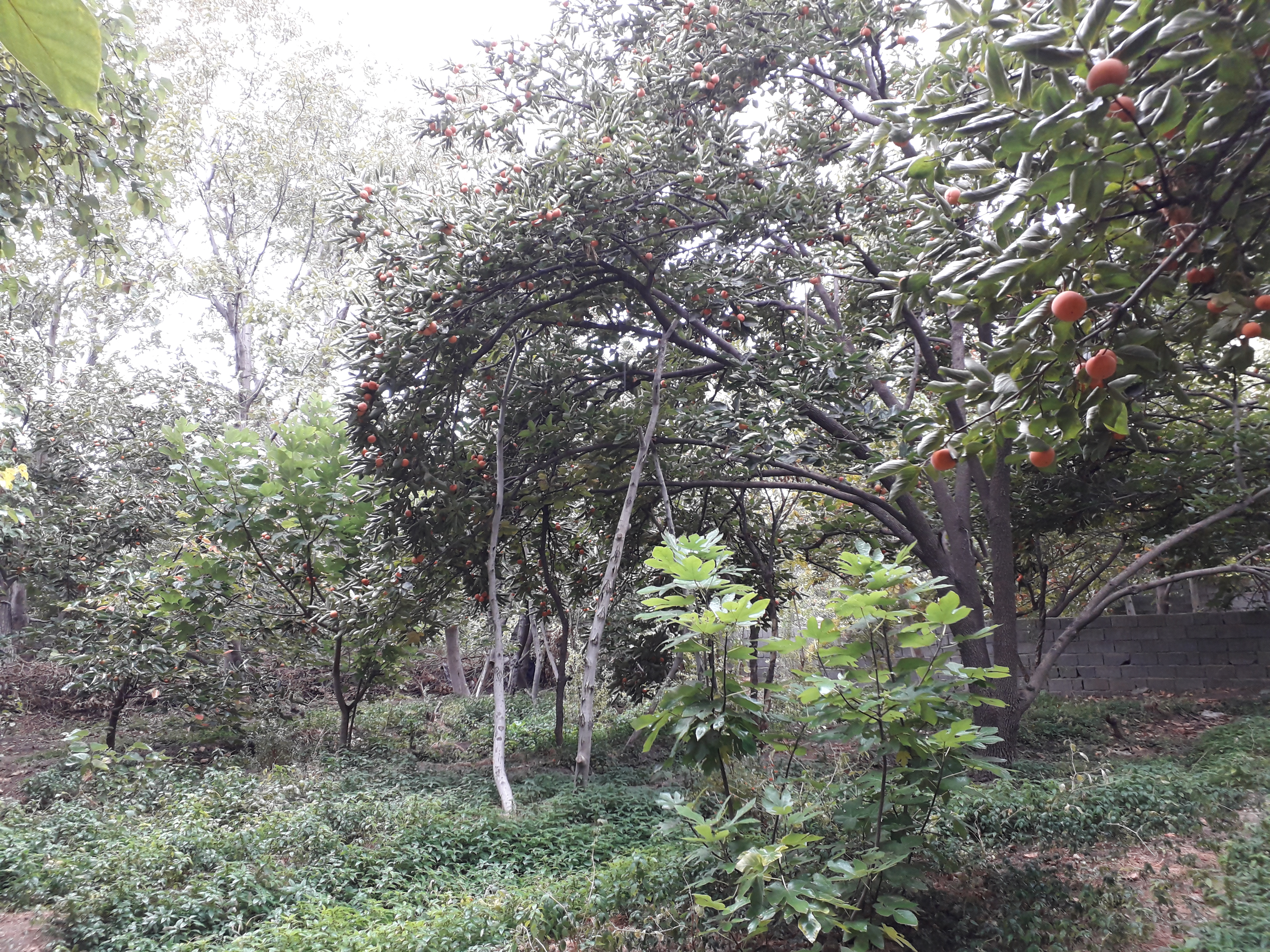 this pictoure is for the nature of city tehran kan